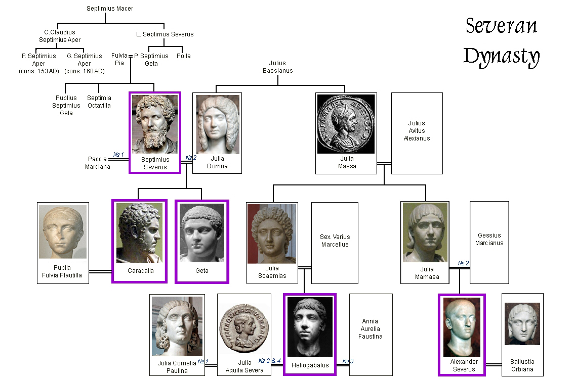 Genealogy tree of Severan dynasty